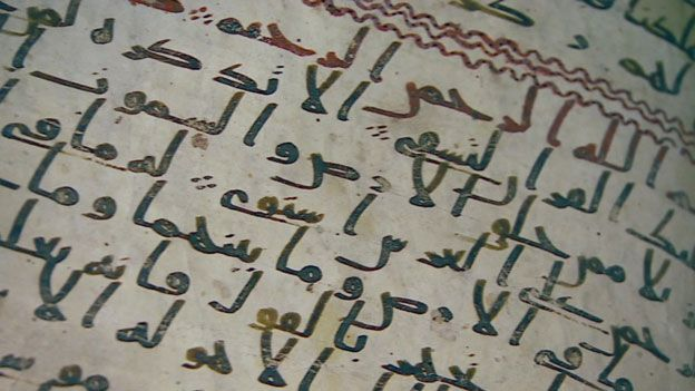 Part of the seventh-century Quran manuscript held by the University of Birmingham.